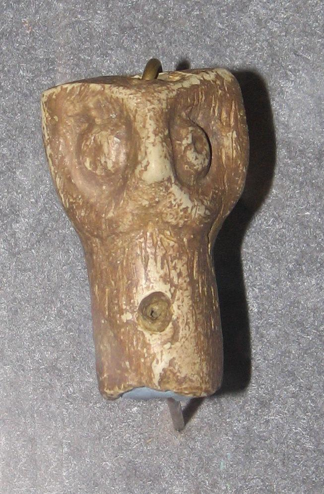 An owl-head shaped cover of a noble's riding-stick's end made of bone approximately from the 9th-10th century. It was found in Hajdúdorog, Hungary. The stick-end's cover is an important find from the early Hungarian period of the Eastern part of Hungary. Today it is exhibited in the Hajdúdorog Historical Museum.